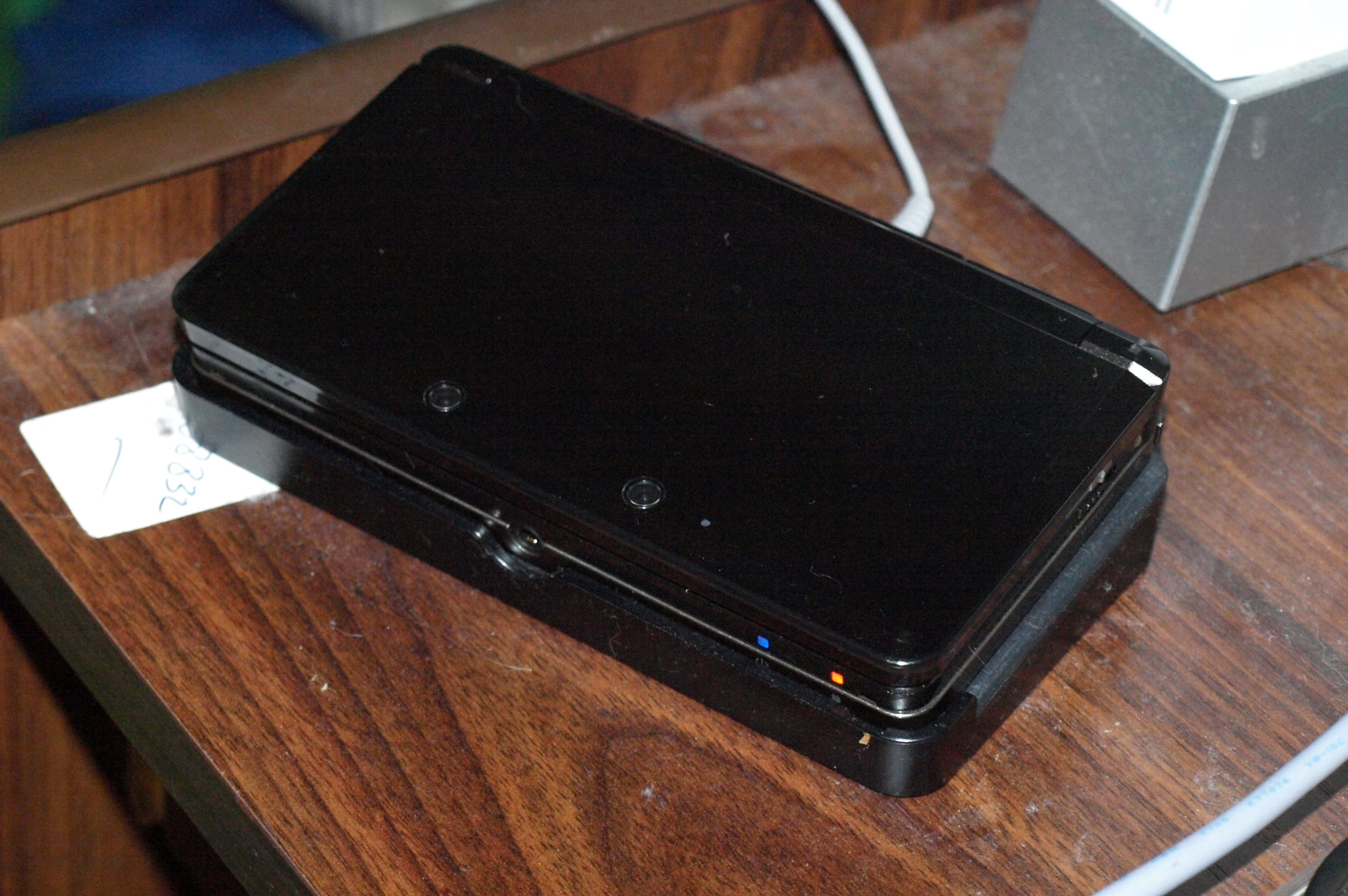 A Nintendo 3DS in sleep-mode, while re-charging on its cradle.